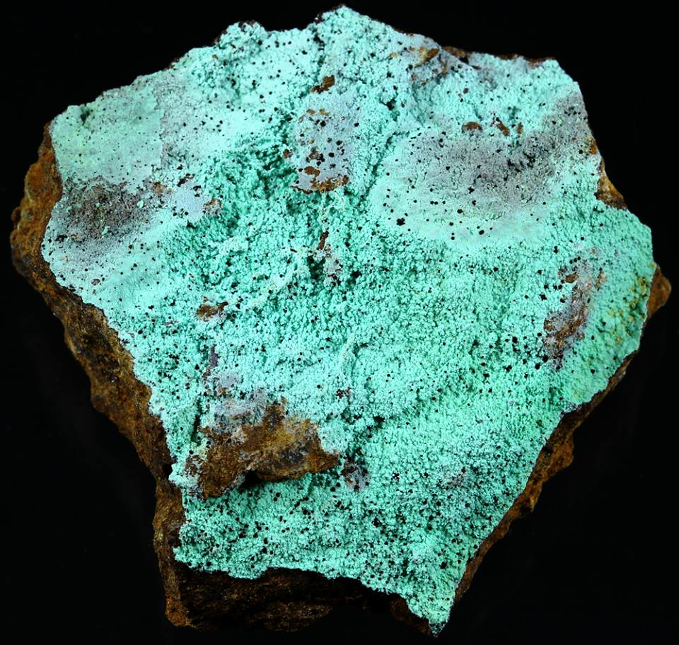 Pale blue takovite. Steve Sorrell collection. From Rocky's Reward Ni Mine, Leinster, Leonora Shire, Western Australia, Australia